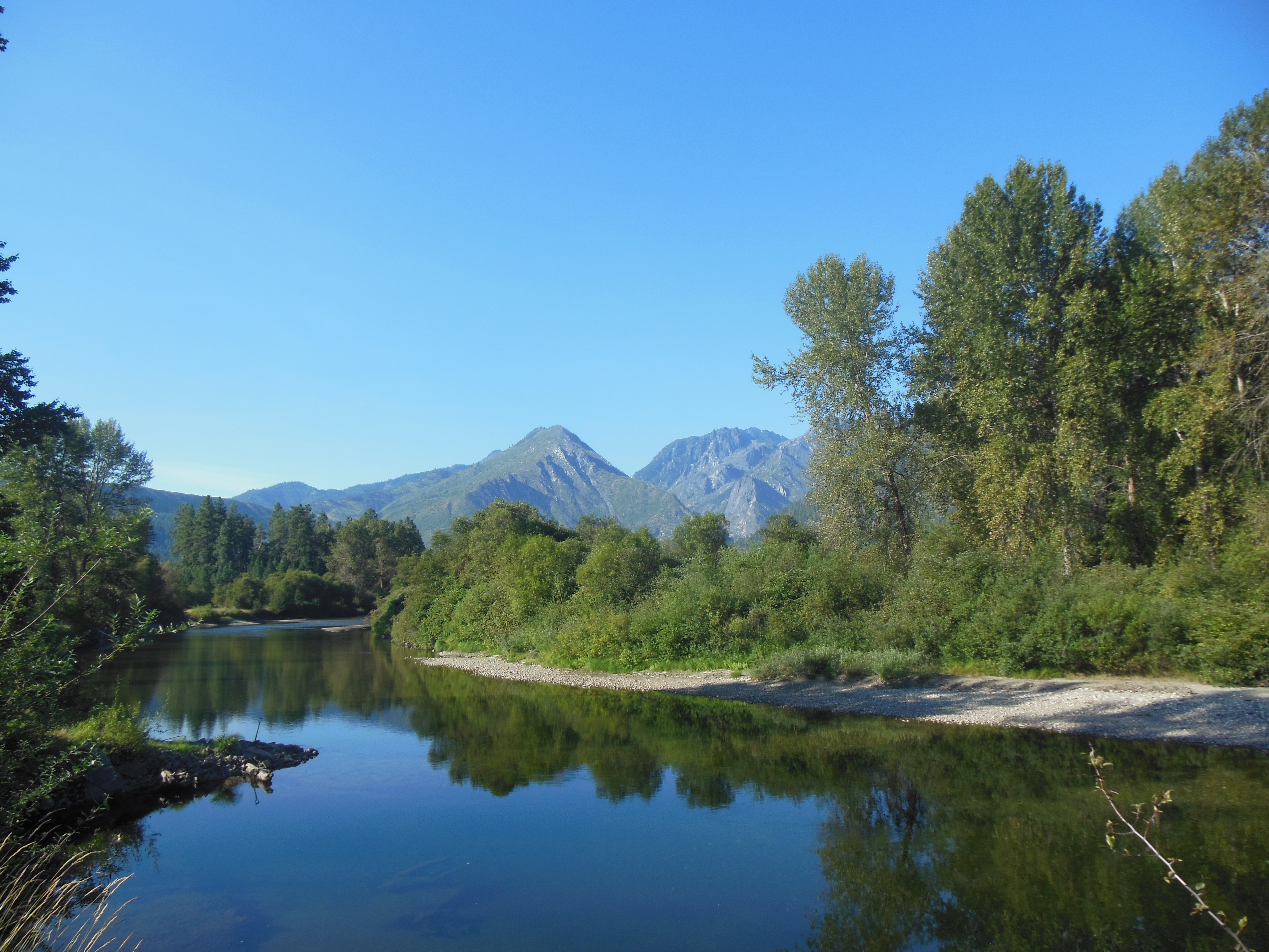 View up Icicle Creek, a tributary of the Wenatchee River, in Chelan County, Washington